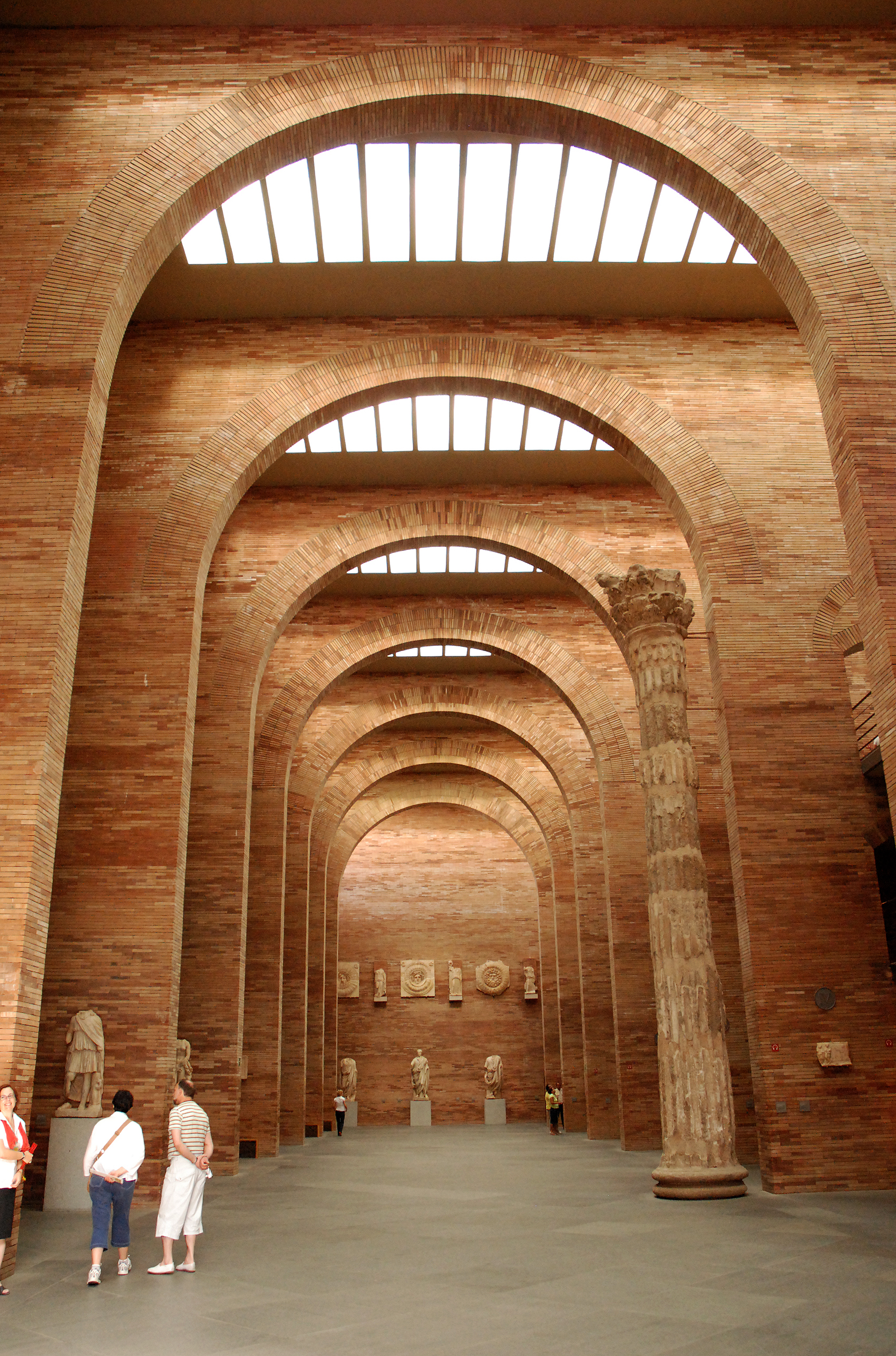 Interior of the National Museum of Roman Art in Mérida (Badajoz, Extremadura, Spain).